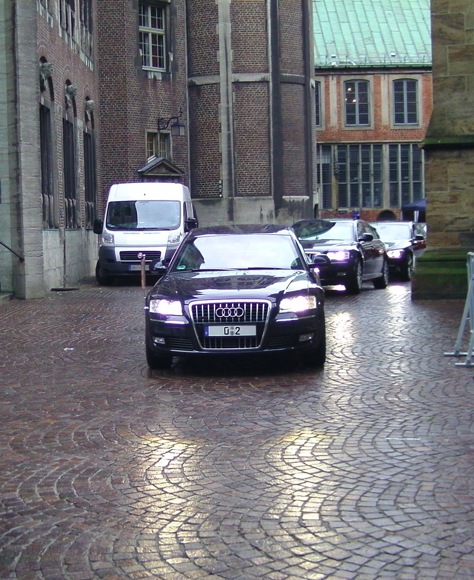 The limousine of the German chancellor, an Audi A8 6.0 L, with vehicle registration plate 0-2. Here seen in Bremen on the German Unity Day.